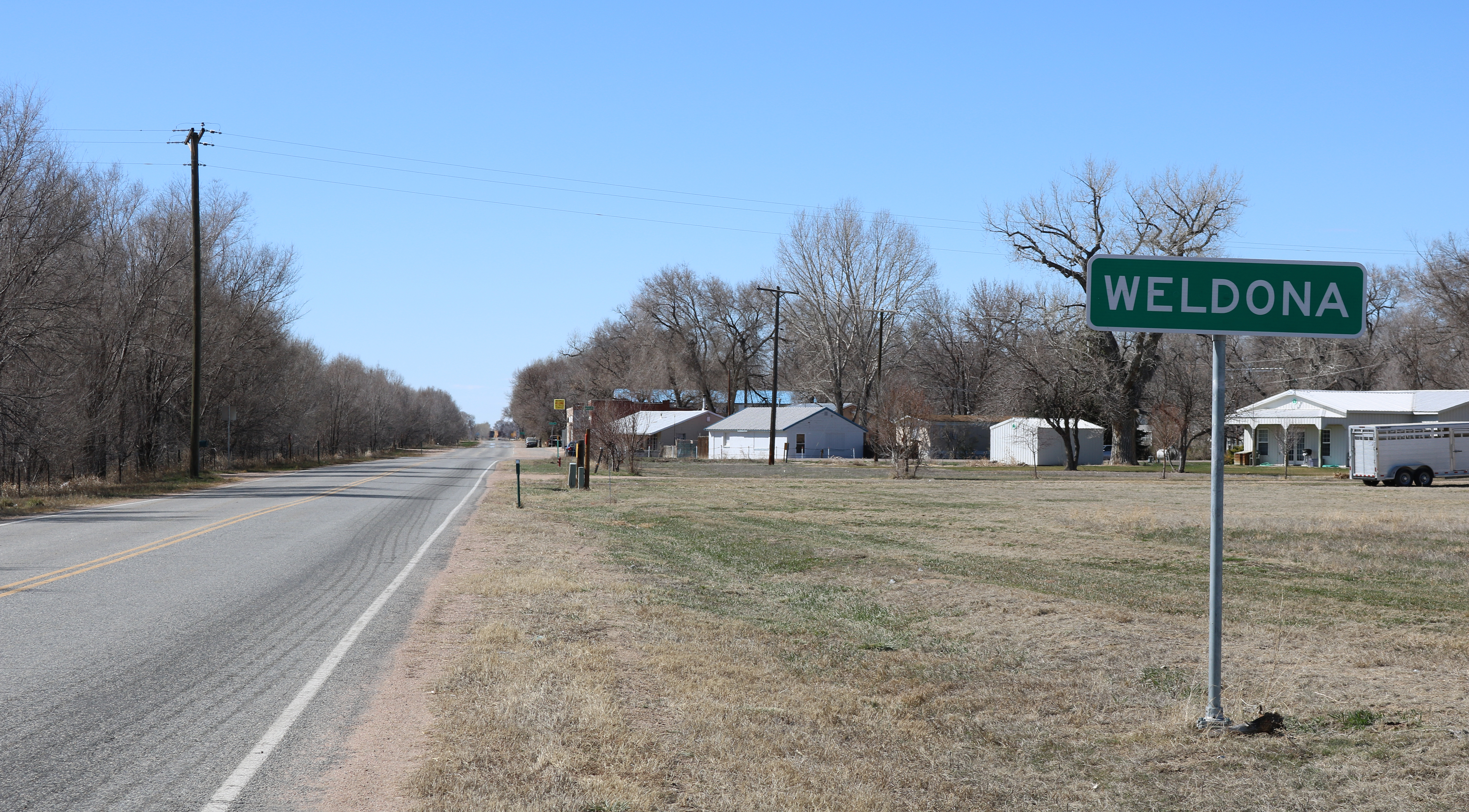 Weldona, Colorado, an unincorporated community in Morgan County. The road on the left is Colorado State Highway 144.